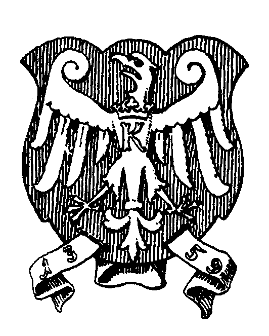 Pakość. Coat of arms.